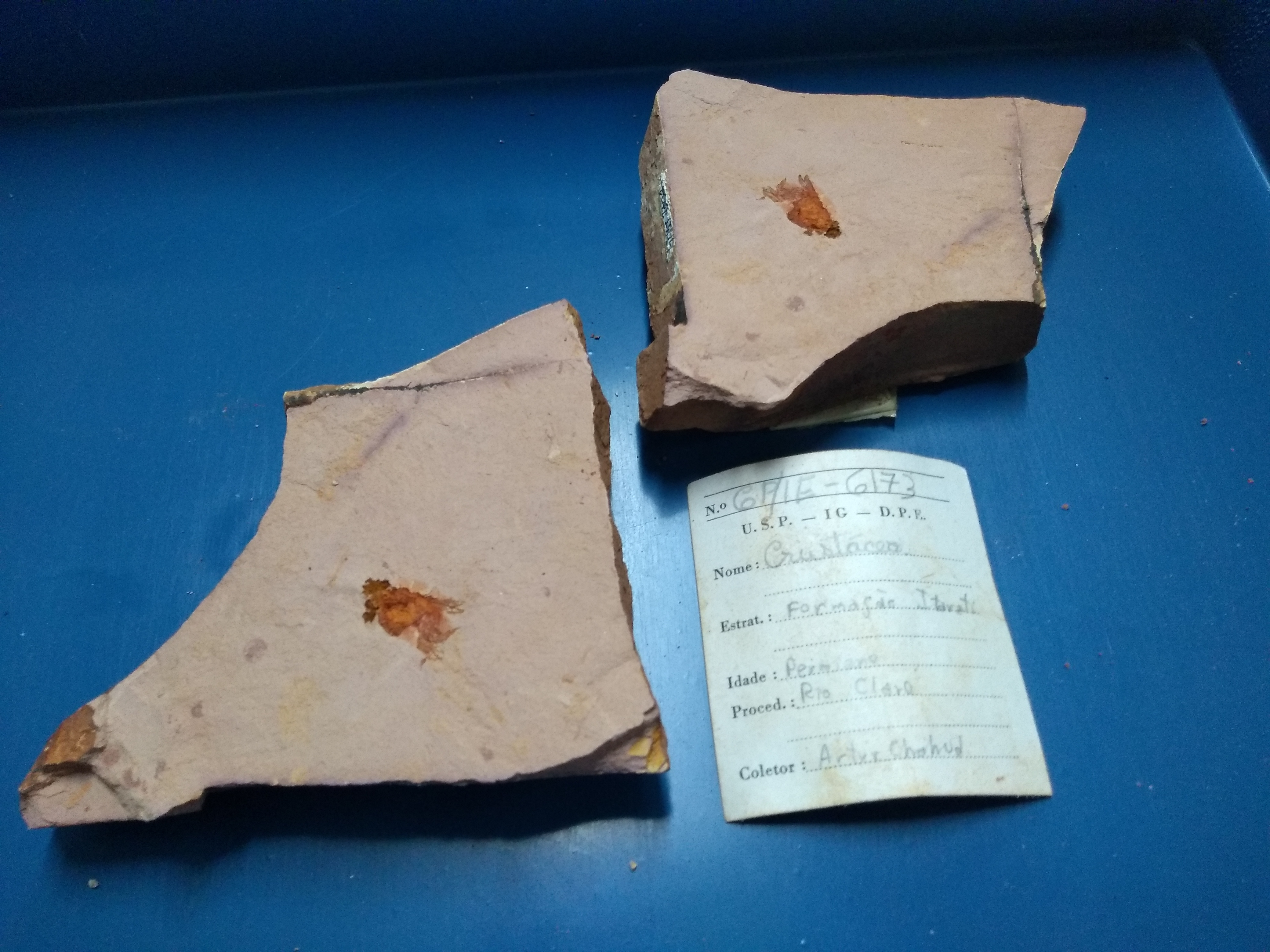 Photo of unspecified crustaceo owned by Instituto de Geociências USP, Departamento de geologia sedimentar e ambiental - Laboratório de paleontologia e sistemática. Permian, collected by Arthur Chahud on Rio Claro, Brazil.